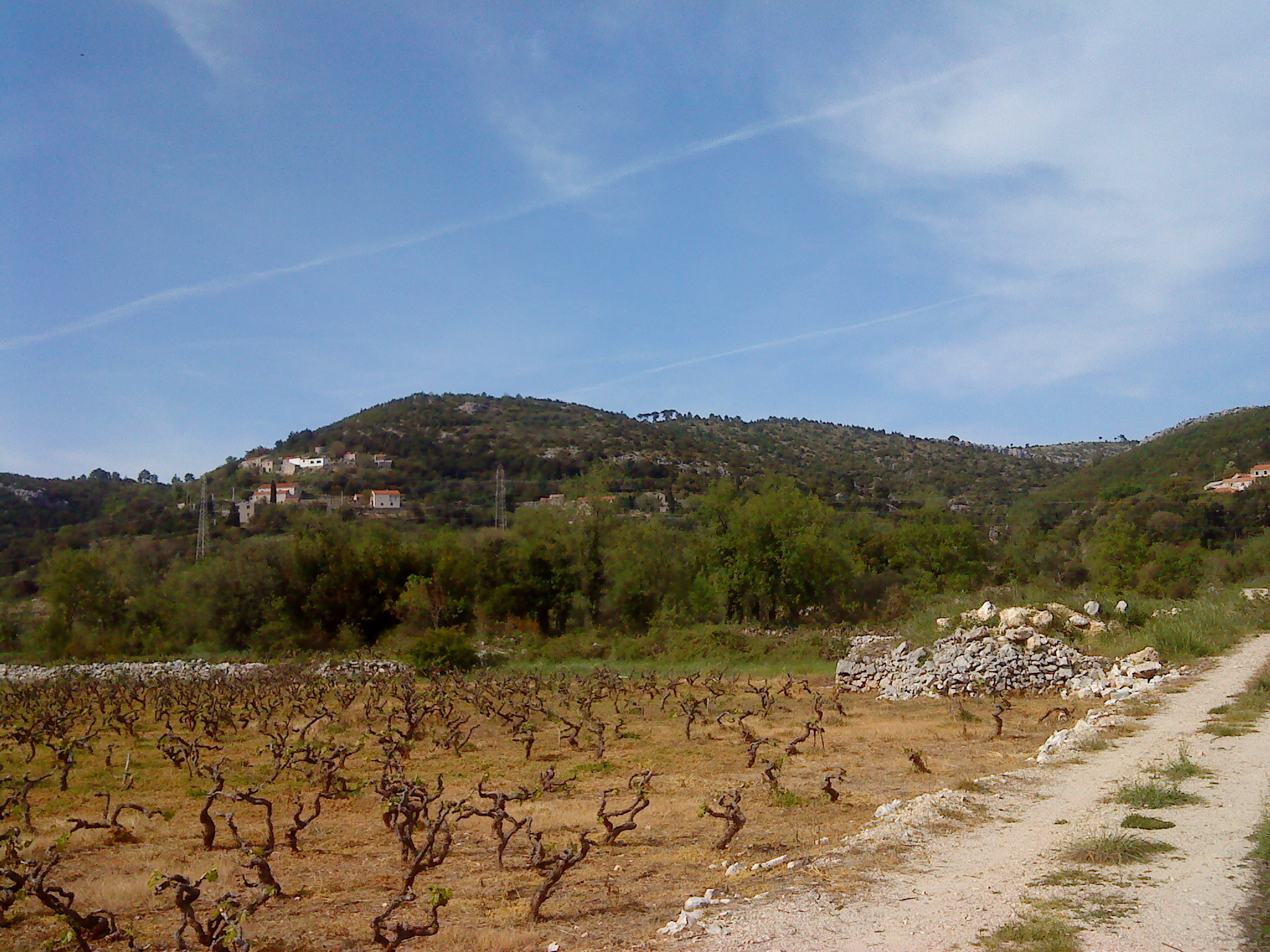 Zabrđe